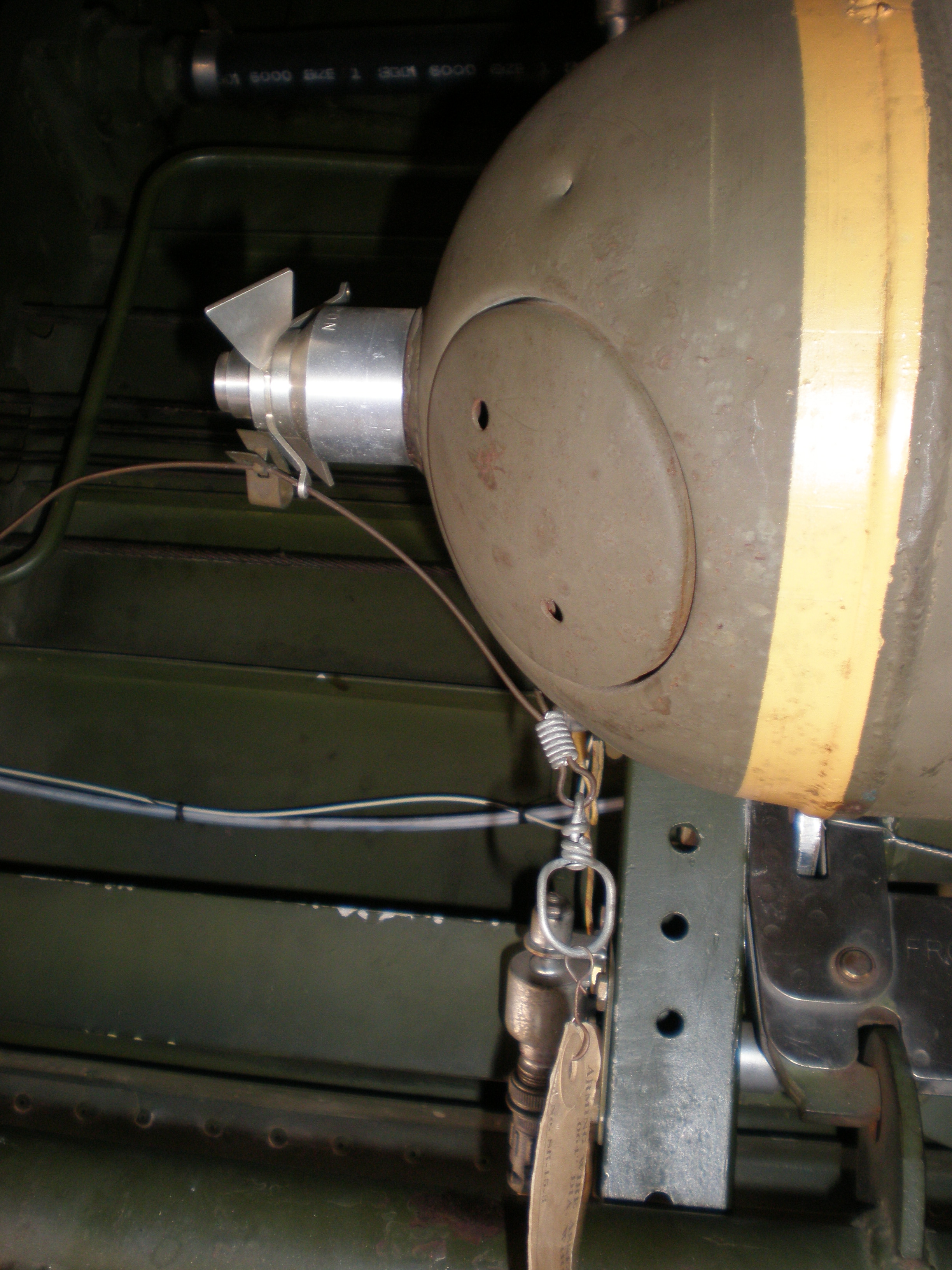 Dummy bombs in the bomb bay of the B-25J "Heavenly Body", which was on display and available for tour at the Pacific Coast Dream Machines vehicle show at the Half Moon Bay Airport in Half Moon Bay, California.